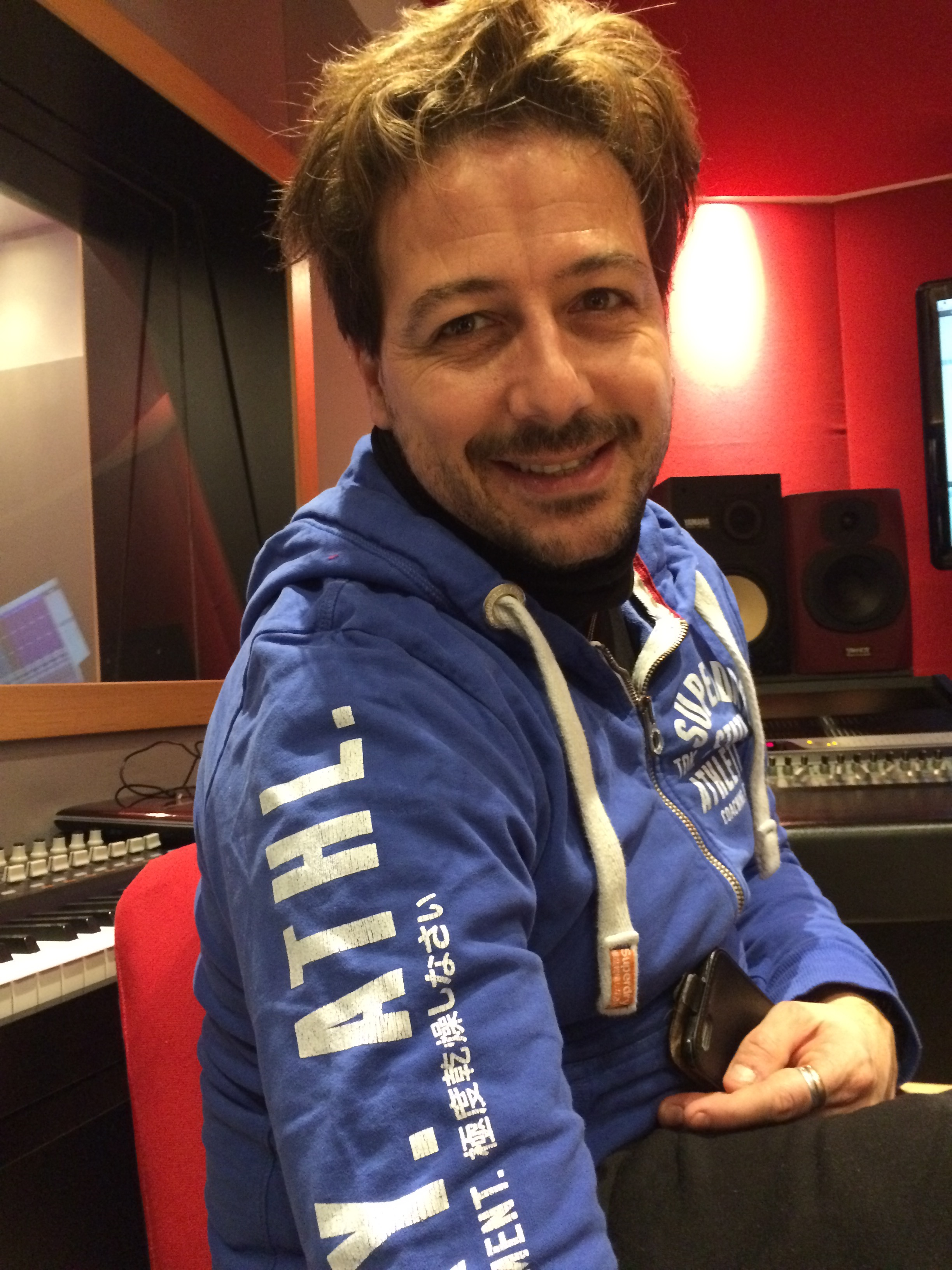 Simone Tomassini at auditoria records